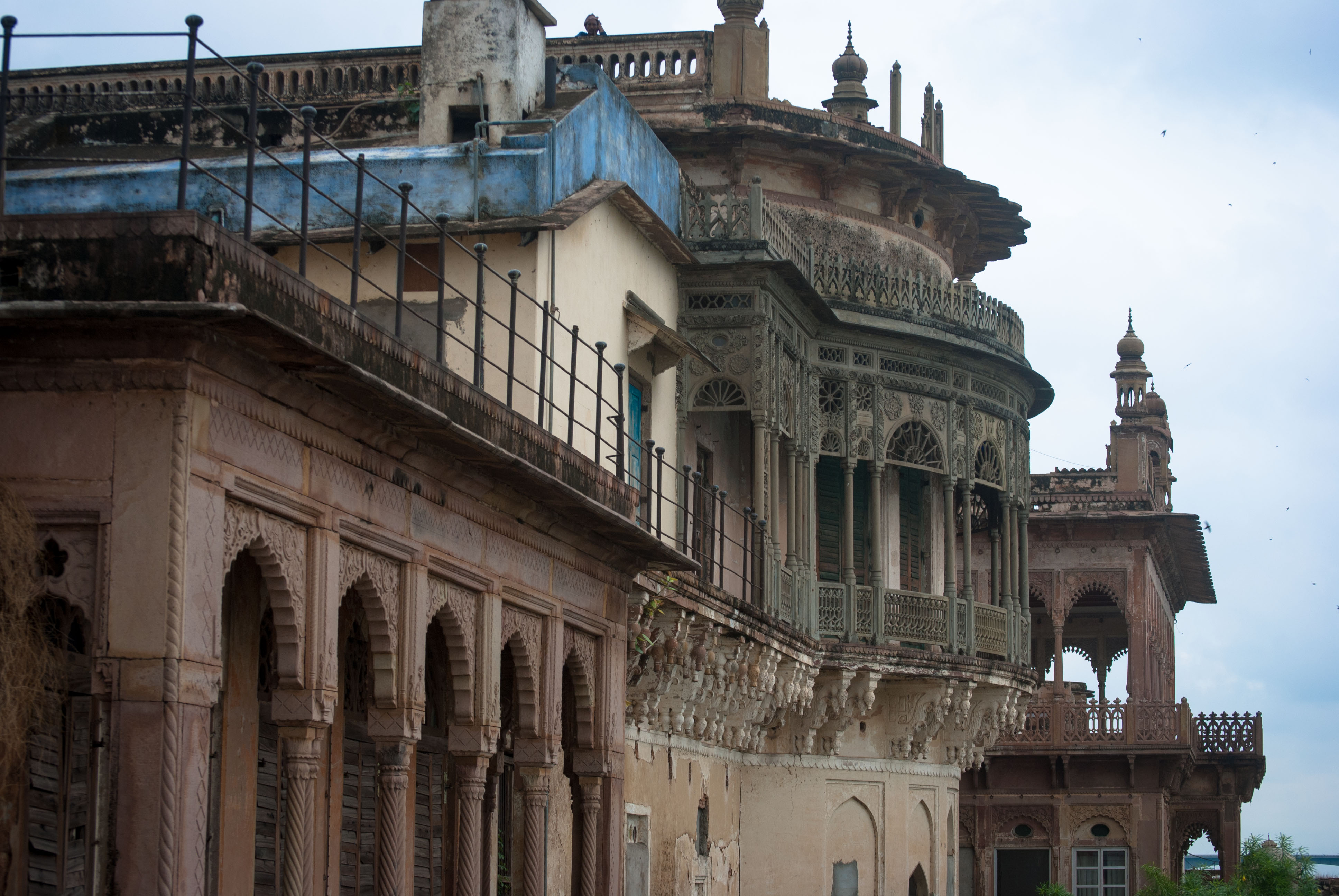 This picture was taken in Varanasi-2013